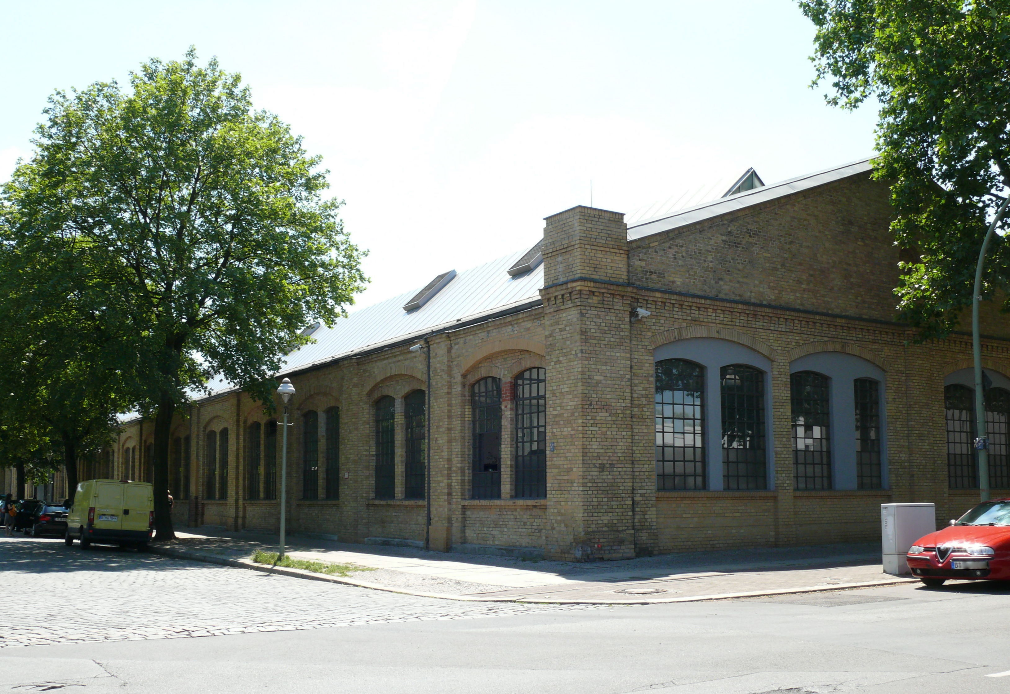 Berlin-Moabit Wiebestraße Meilenwerk